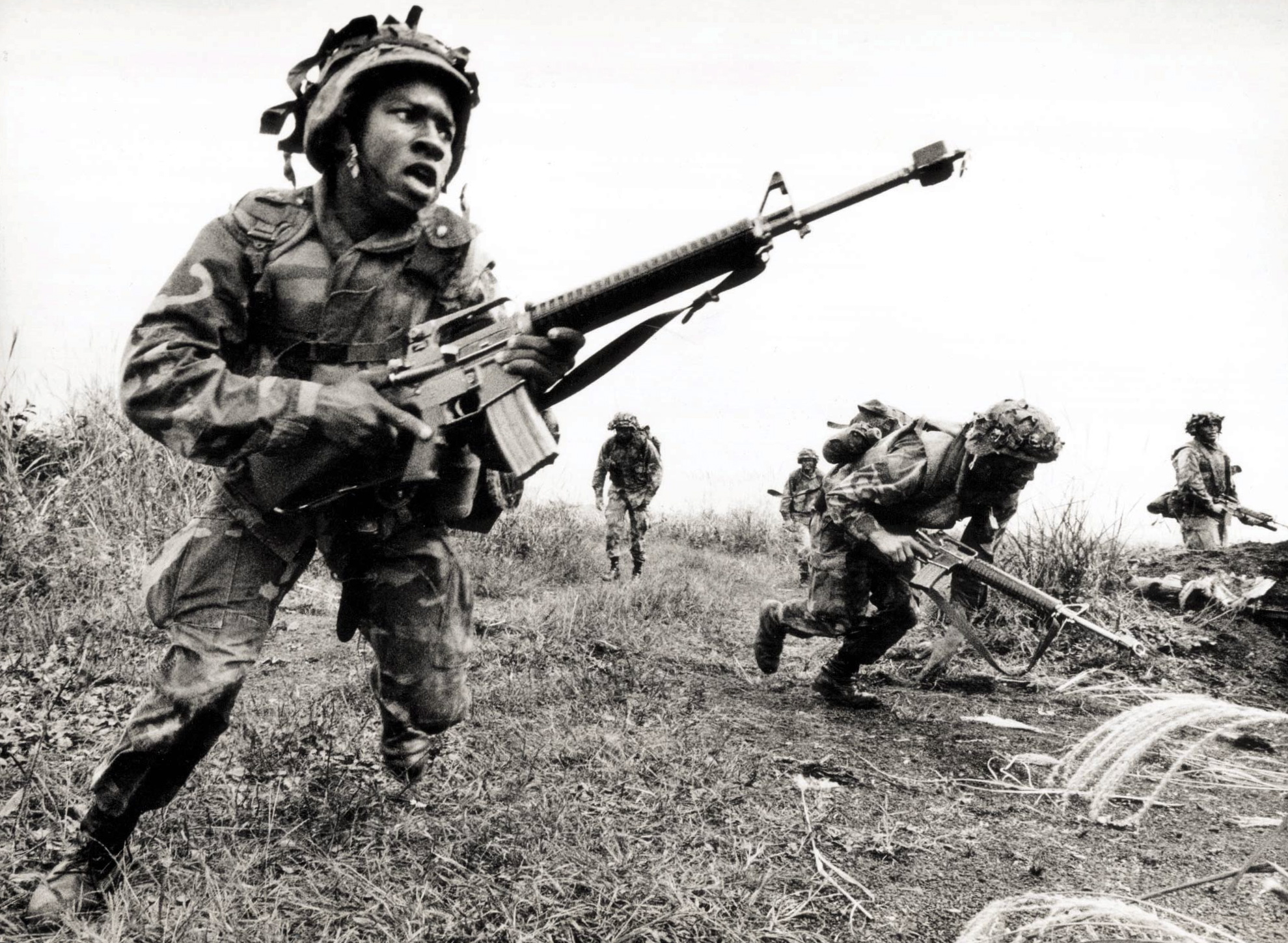 Original Caption: First Place Combat Camera 'Engaging the Enemy' by Petty Officer 2nd Class Christian Fuchs, U.S. Navy. Cpl. Raymond Barrientos leads his fire team on a charge during live-fire training exercises at Camp Fuji. Barrientos and his team, members of Weapons Company, 3rd Battalion, 3rd Marines, were practicing engaging an enemy force in open terrain. The company is based at Kaneohe Marine Corps Air Station in Hawaii and was in Japan for six months of training.